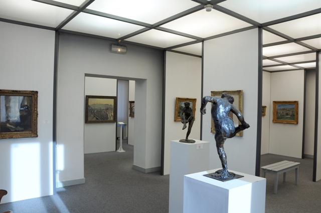 Degas room at the first floor of the musée Faure museum in Aix-les-Bains, Savoie, France.